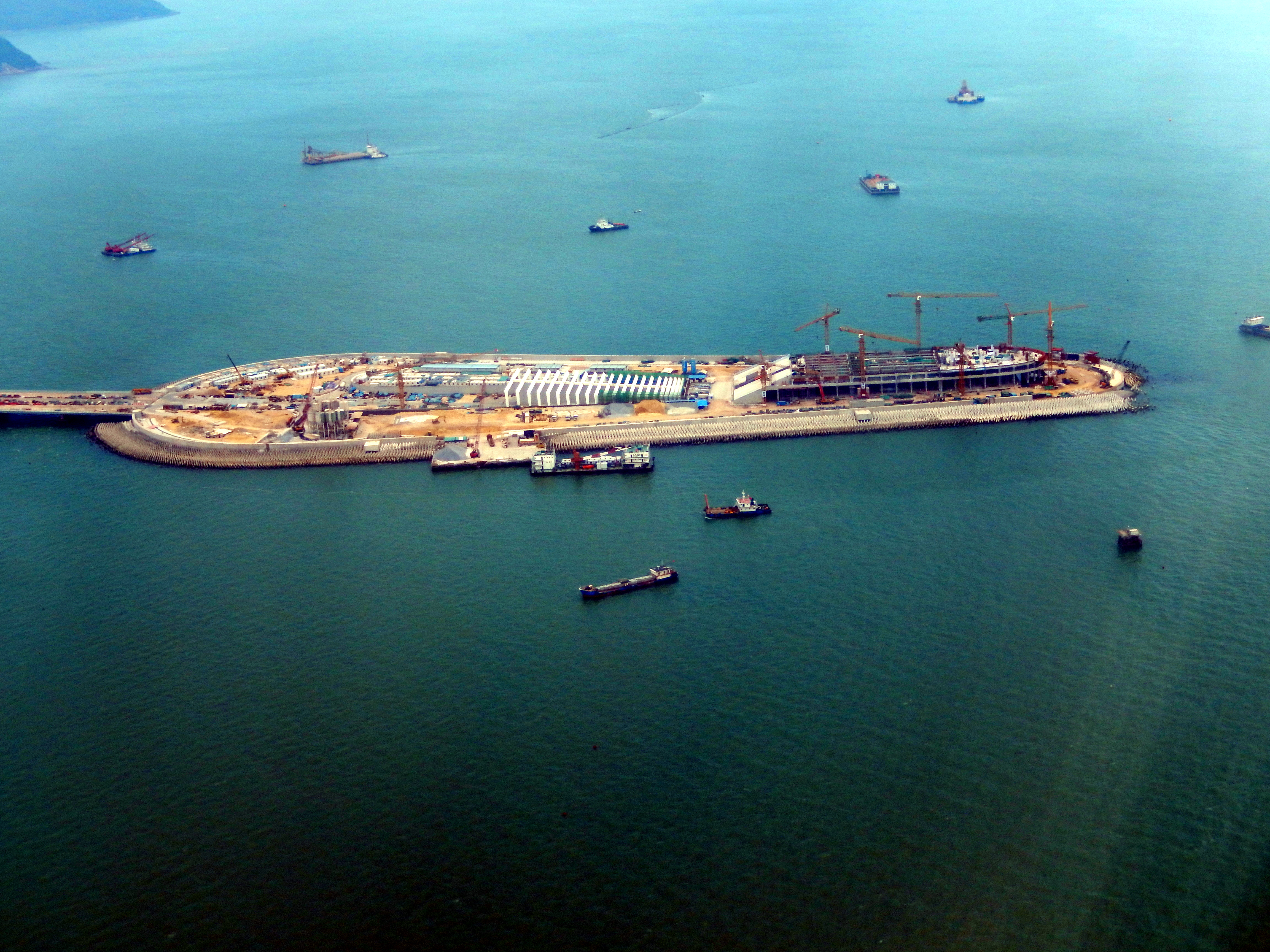 View from landing airplane of the eastern artificial Island of the Hong Kong-Zhuhai-Macao Bridge